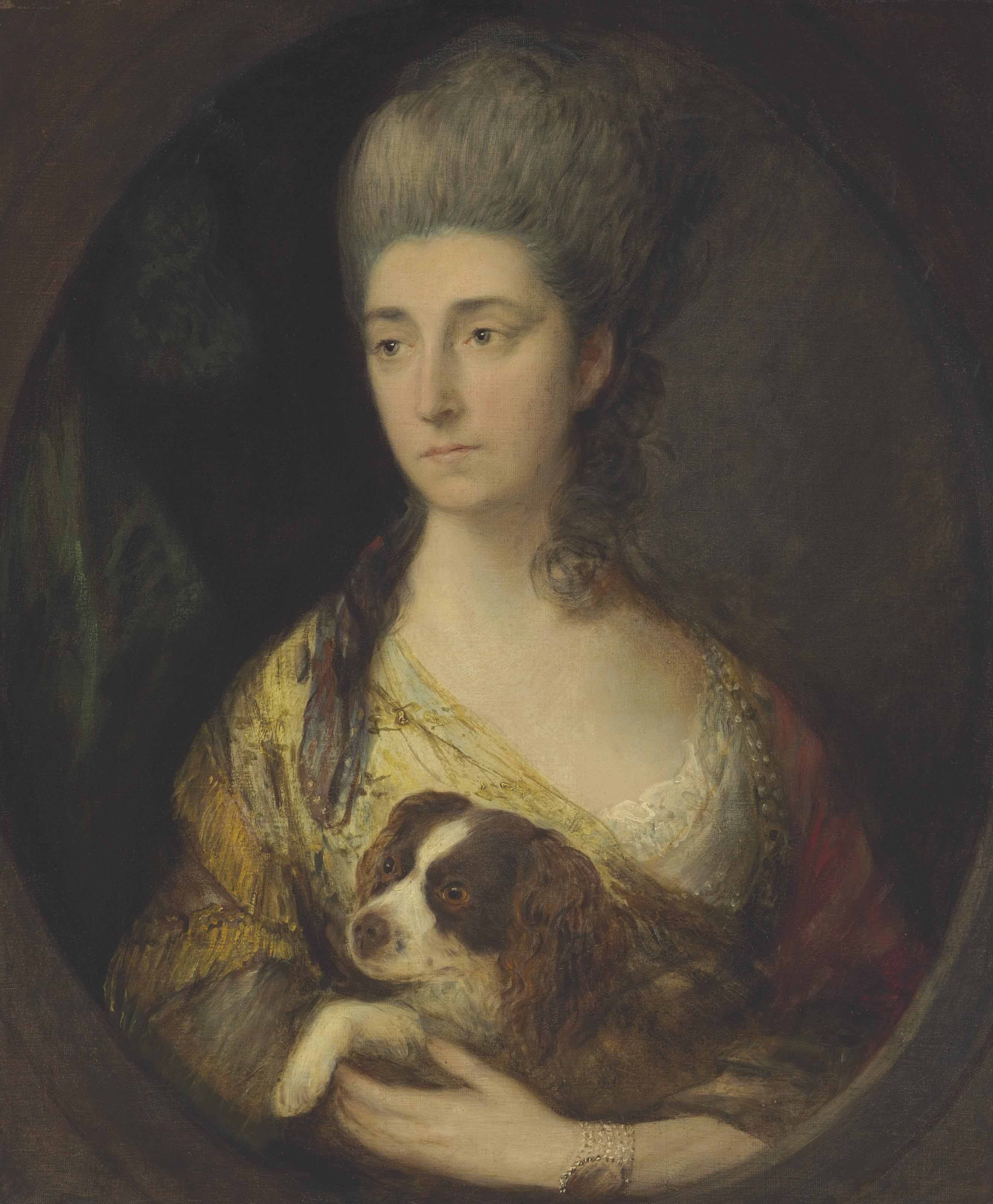 Portrait of Lady Frederick Campbell (c.1730–1807), formerly Mary Shirley, Countess Ferrers, nee Mary Meredith.